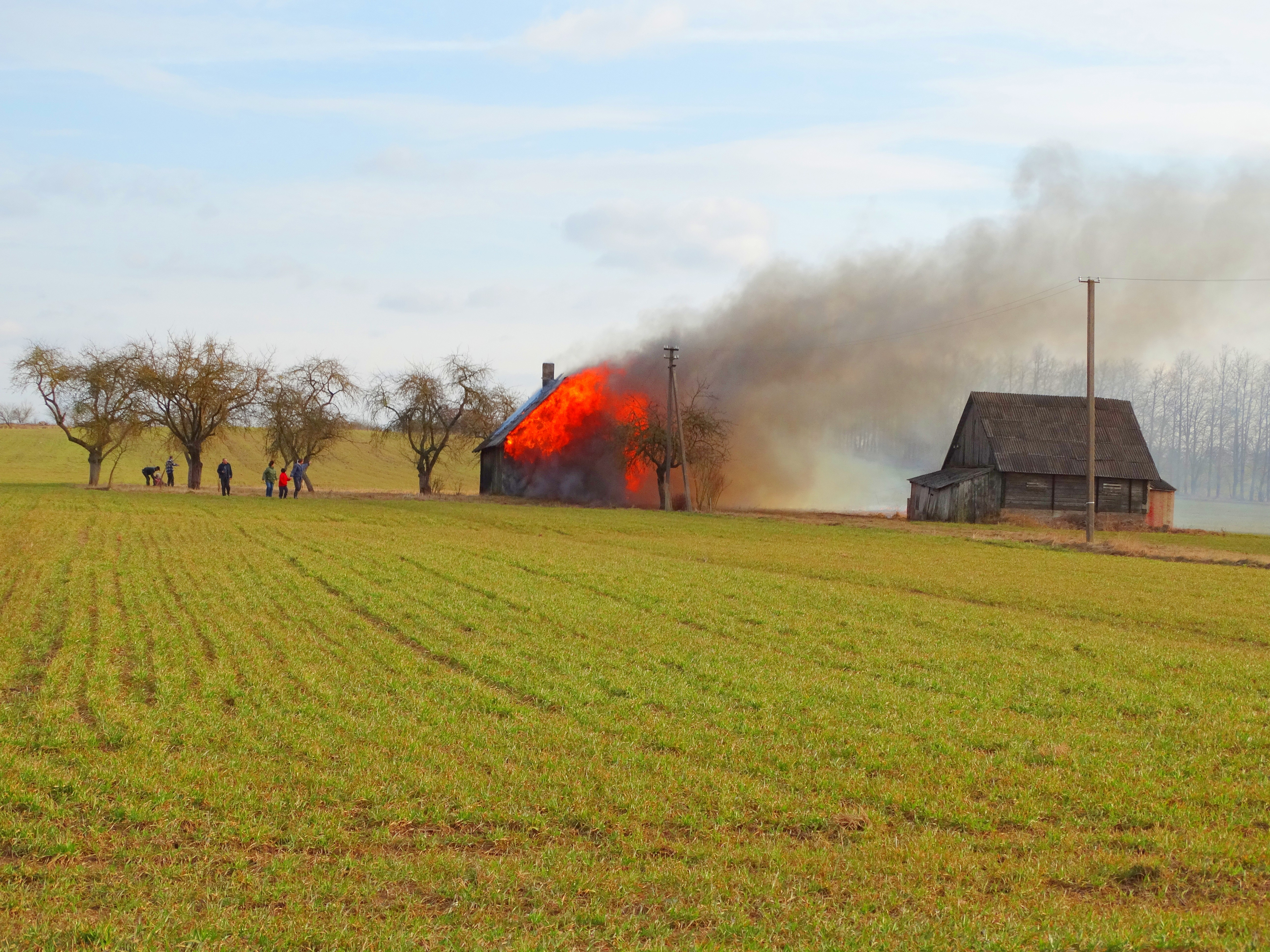 Kvesai,fire, Kaunas district. Lithuania